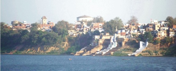 This is an overview of whole MIRZAPUR city from north side of the city. Photo taken standing on Shastri Bridge on Ganges.